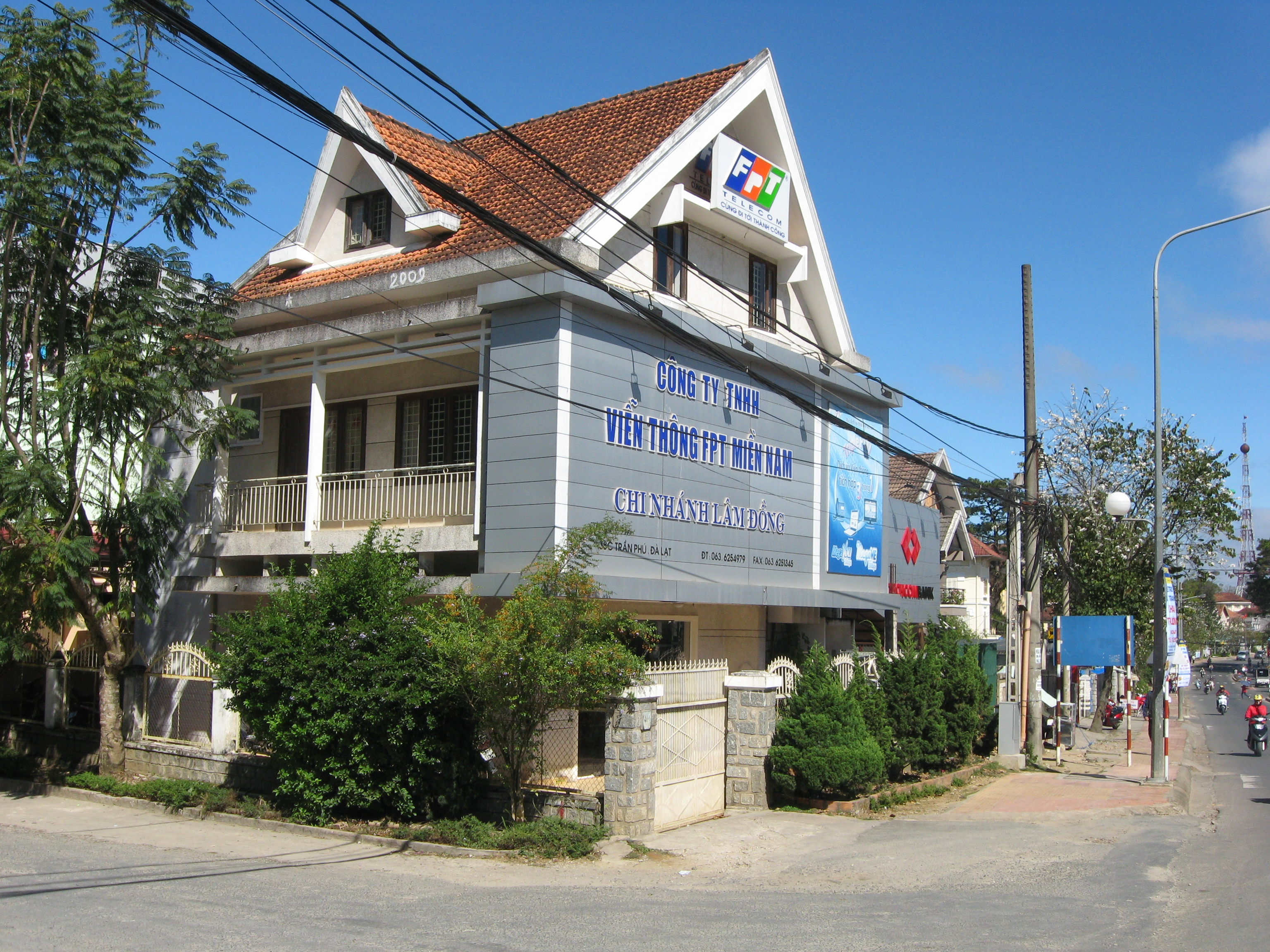 Cong ty TNHH vien thong FPT mien nam - Chi nhanh Lam Dong